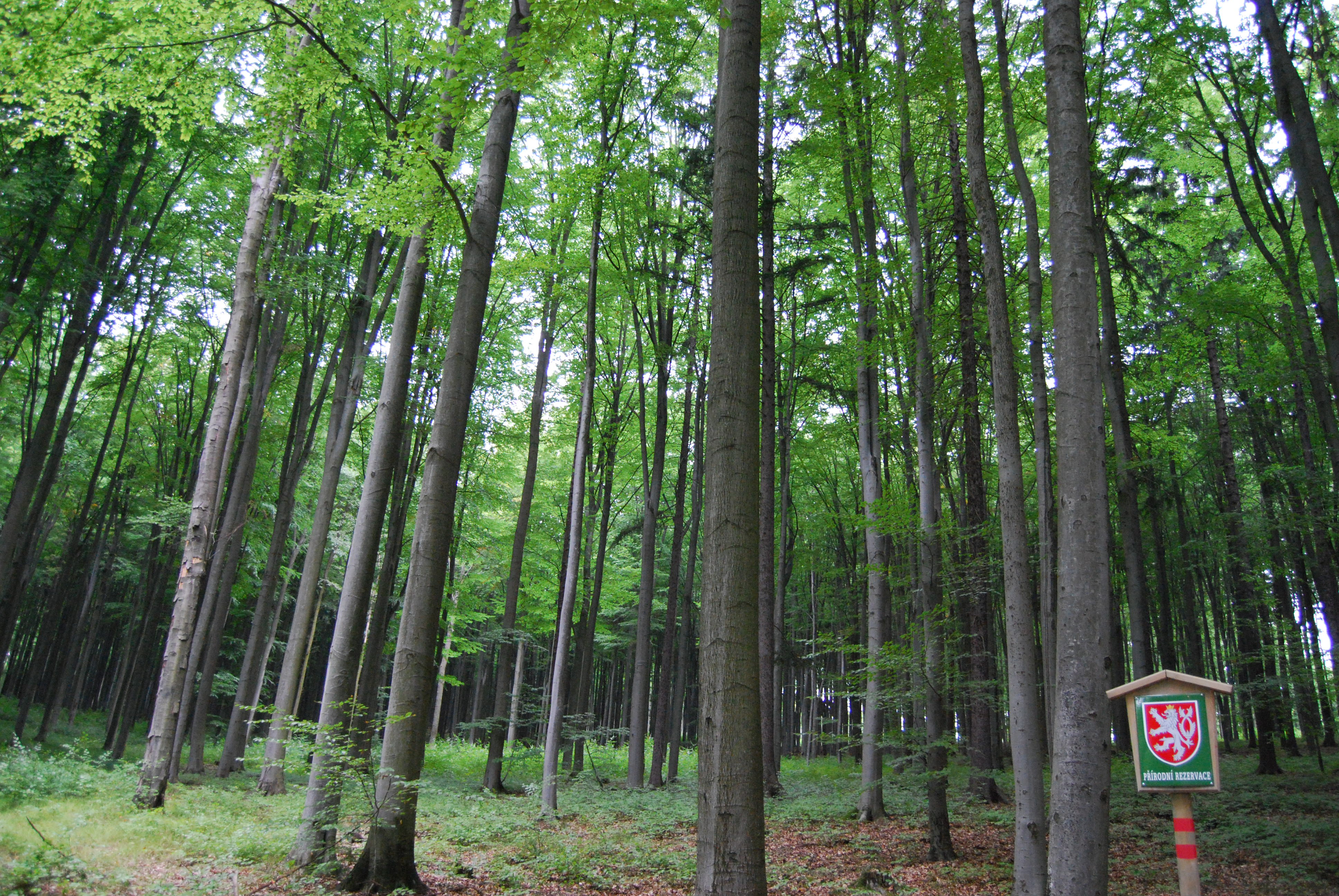 Nature reserve Velký a Malý Kamýk near Albrechtice nad Vltavou village in Pisek District, Czech Republic.